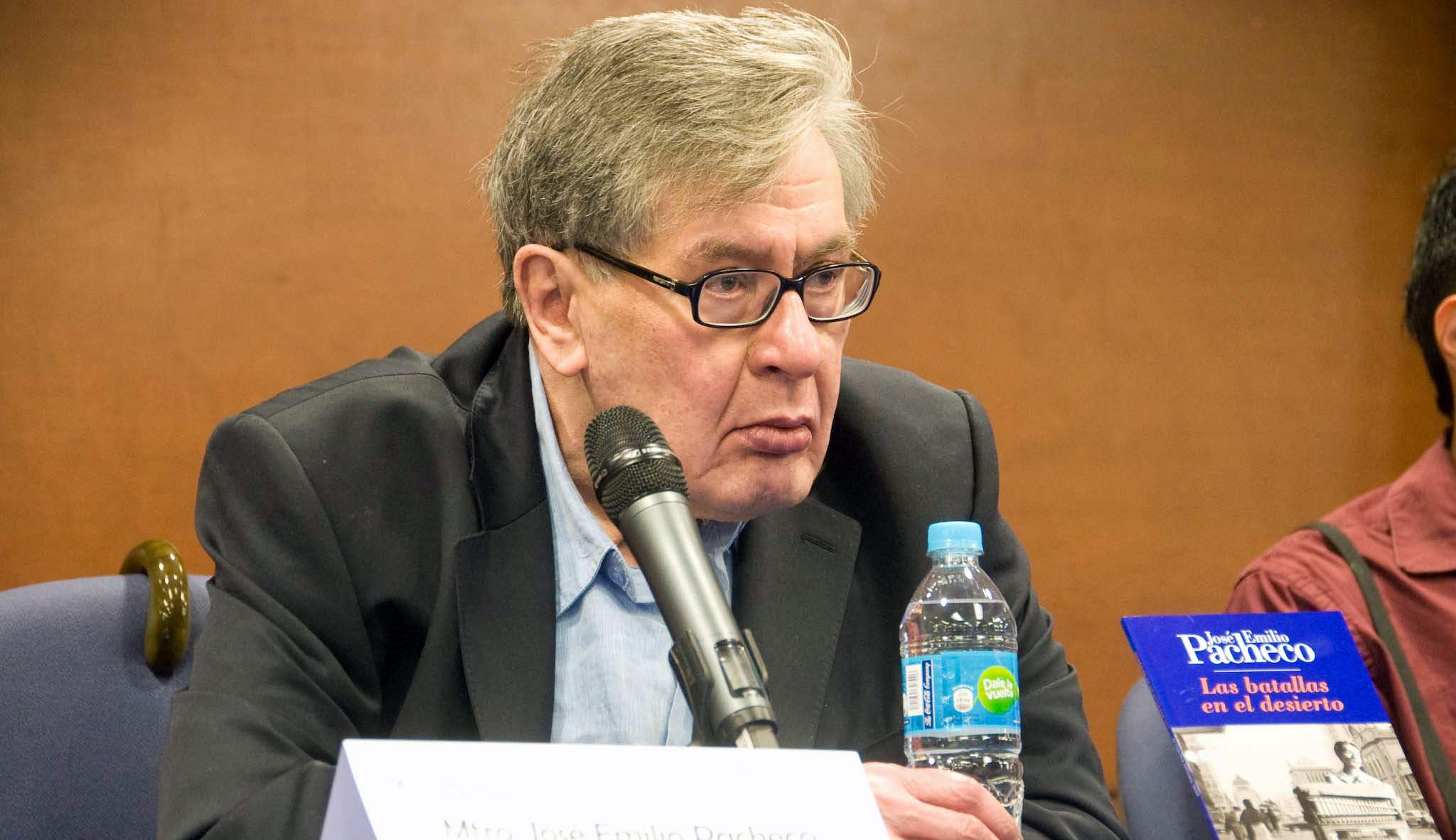 José Emilio Pacheco at ITESM CCM